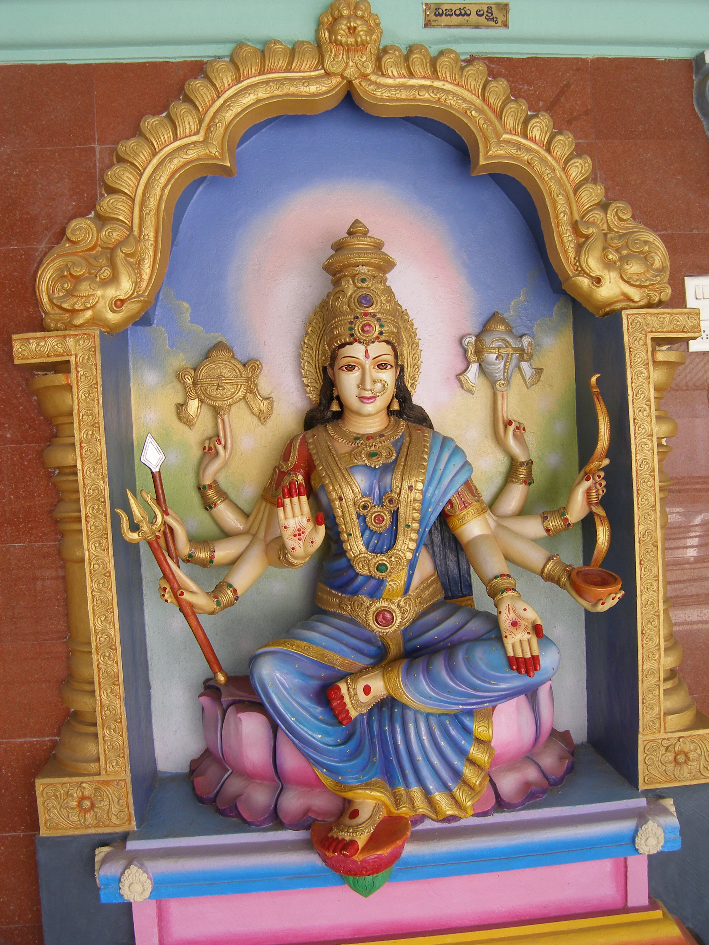 Vijaya Laxmi at Narayana Tirumala.